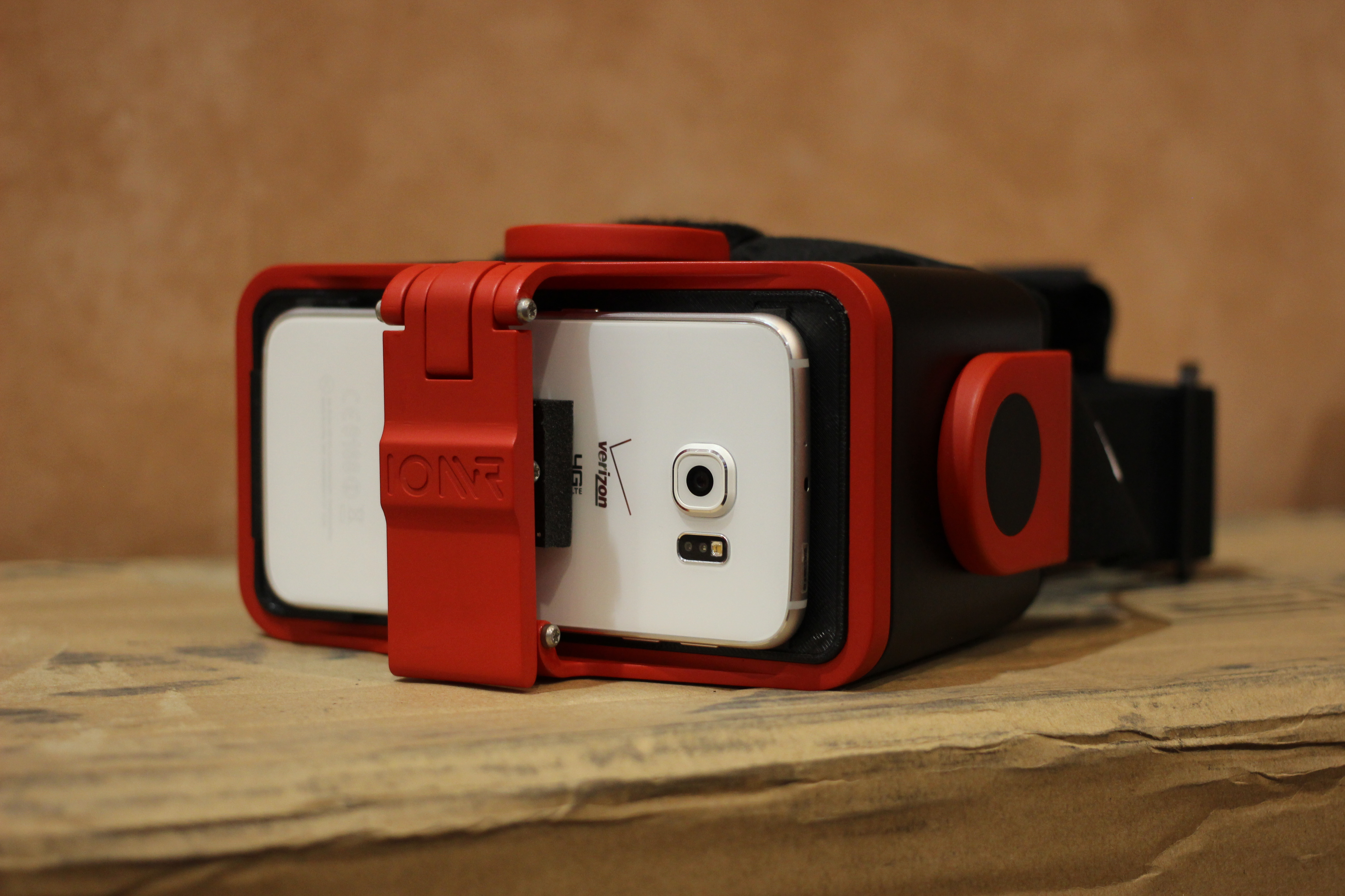 IONVR VR Headset